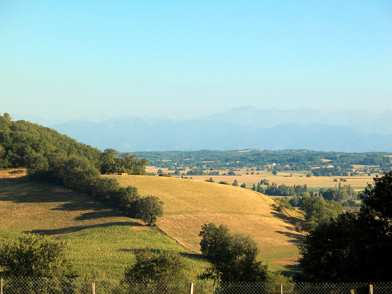 Gers (Midi-Pyrénées, France) : Landscape near Marciac in summer, watching south (background : the Pyrenees).